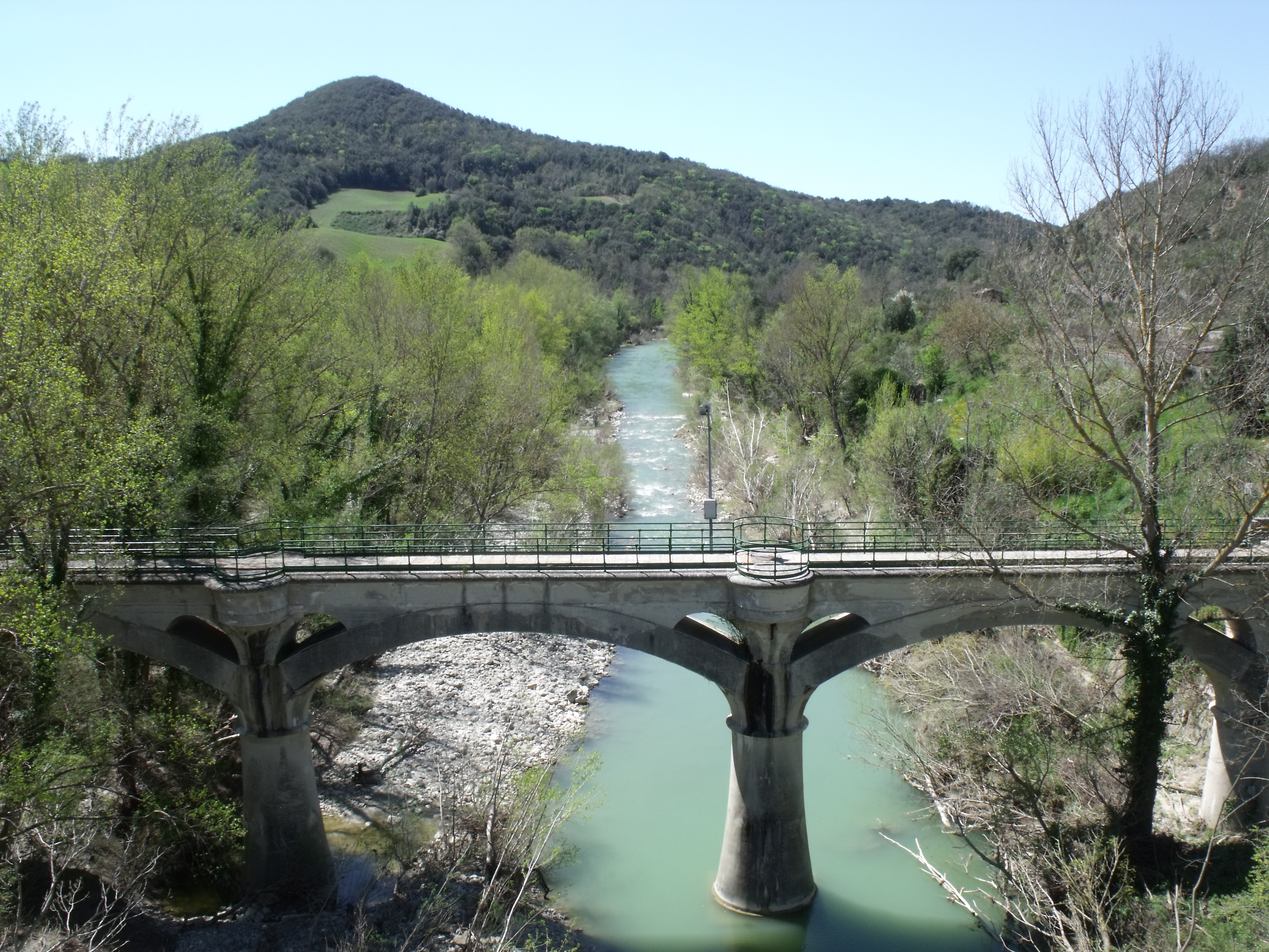 The Orcia River and the Aqueduct Acquedotto del Vivo (Acquedotto di Siena) in Monte Amiata Scalo (Stazione), Part both of Montalcino and Castiglione d’Orcia, Val d’Orcia, Province of Siena, Tuscany, Italy